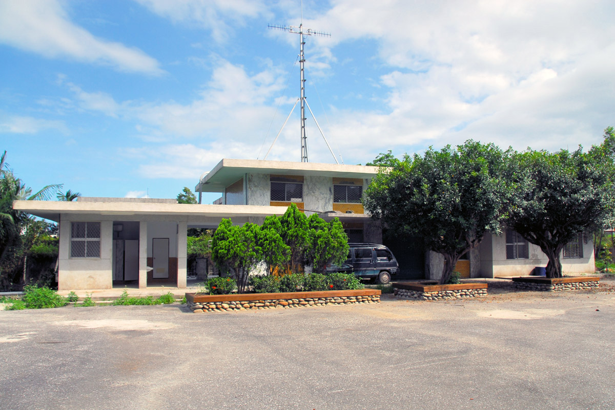 Taiwan Railway Administration GanChiang Station is an abandoned station on Taitung Line. The original station building still exists today but has been transformed into other public usage.